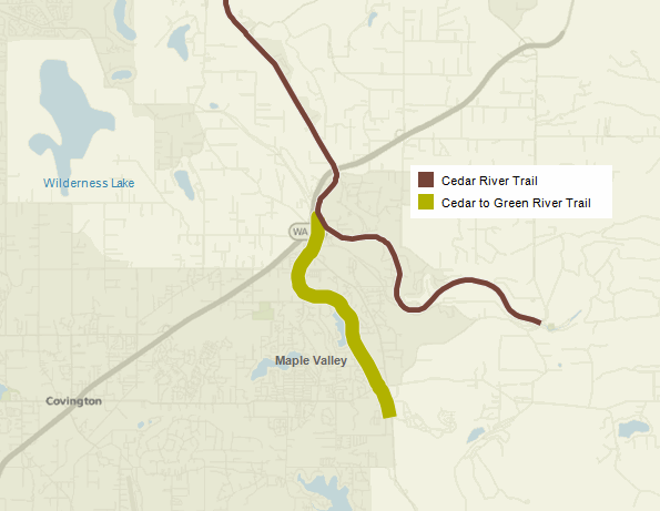 Cedar to Green River Trail route map. Created with Tableau